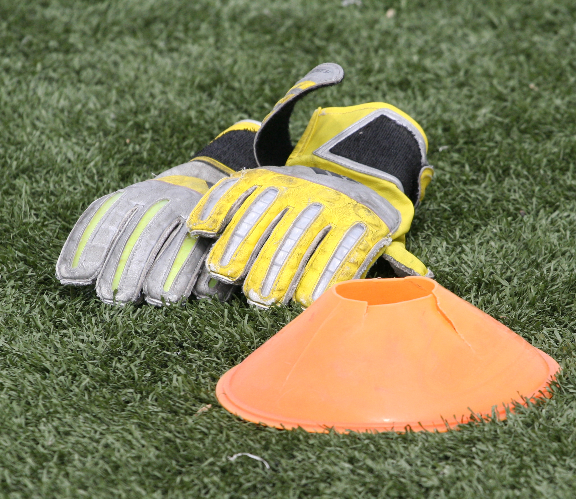 Football/Soccer Keeper Gloves and Field cone on a grass field.